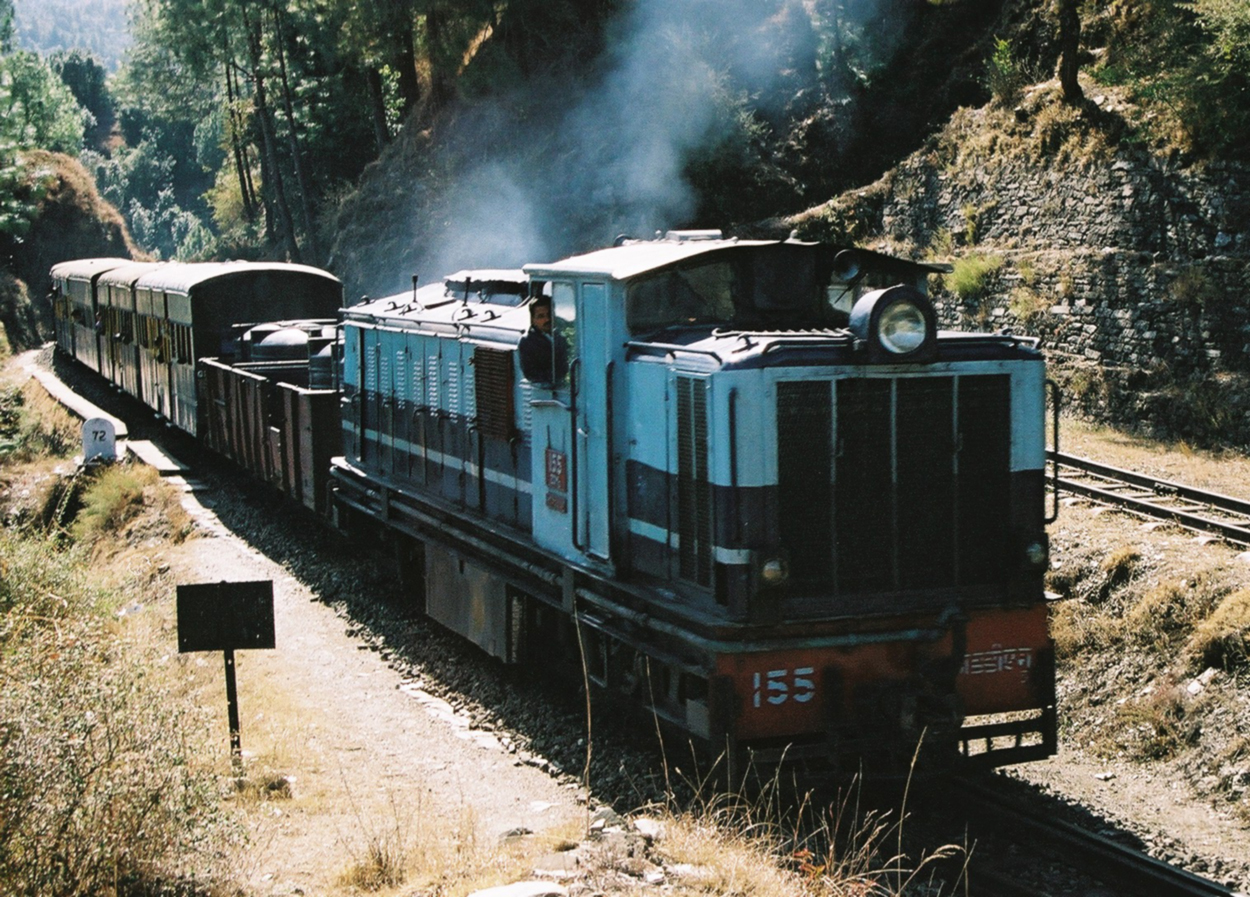 Kalka-Simla Railway. A typical passenger train enters the station at Kathleeghat. 13th February 2005 Photographer - A.M.Hurrell Camera - Minolta X700 (35mm film) Modified - Scanned by film developer. File size and definition changed using Adobe Photoshop 5.0LE